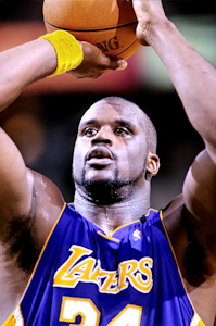 Los Angeles Lakers Shaquille O'Neal 12/20/1999